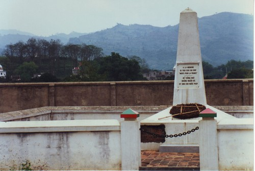 memorial to the 10,000+ French colonial troops who died in the Battle of Dien Bien Phu and in subsequent captivity, Dien Bien Phu, Vietnam